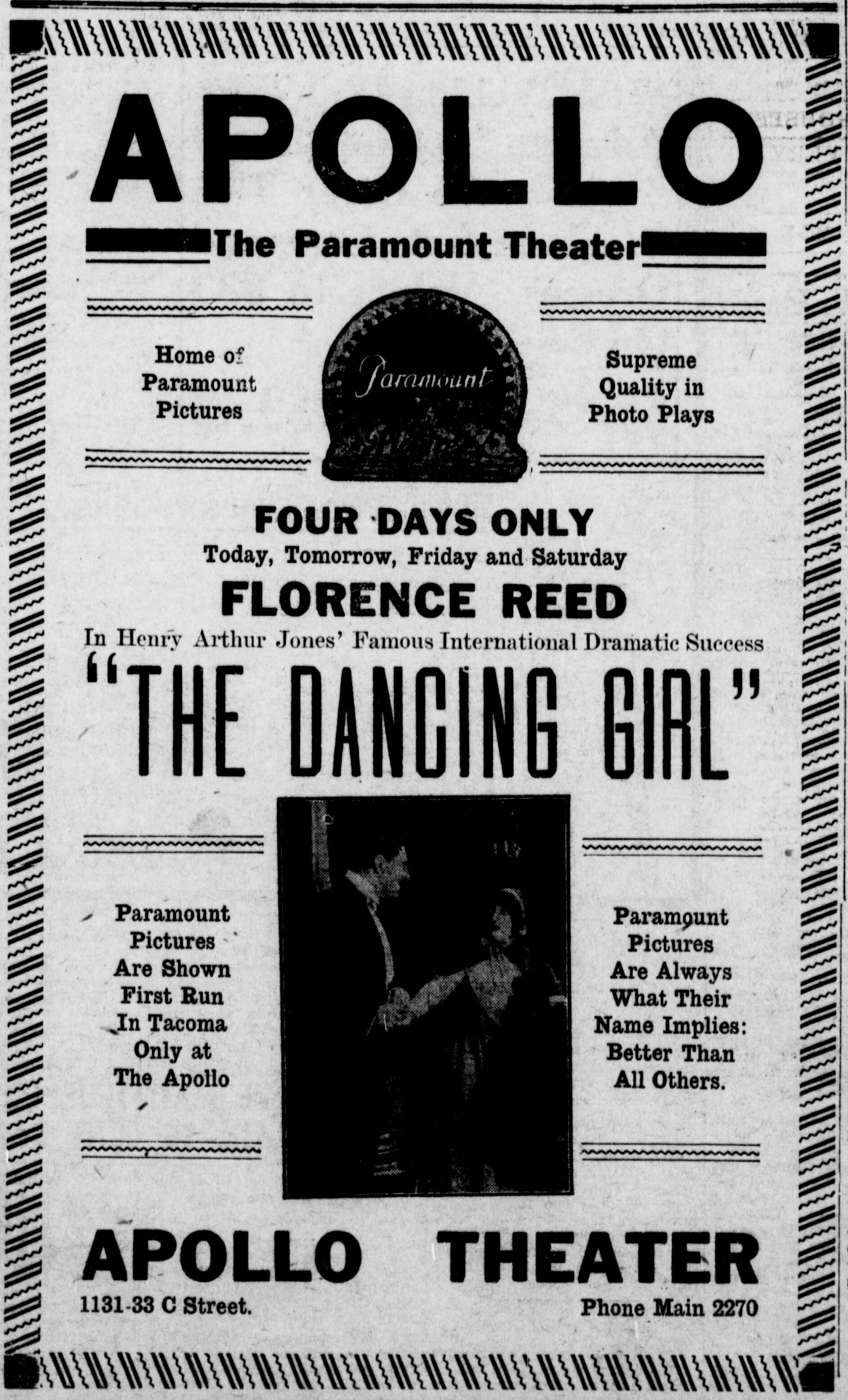 The Dancing Girl advert